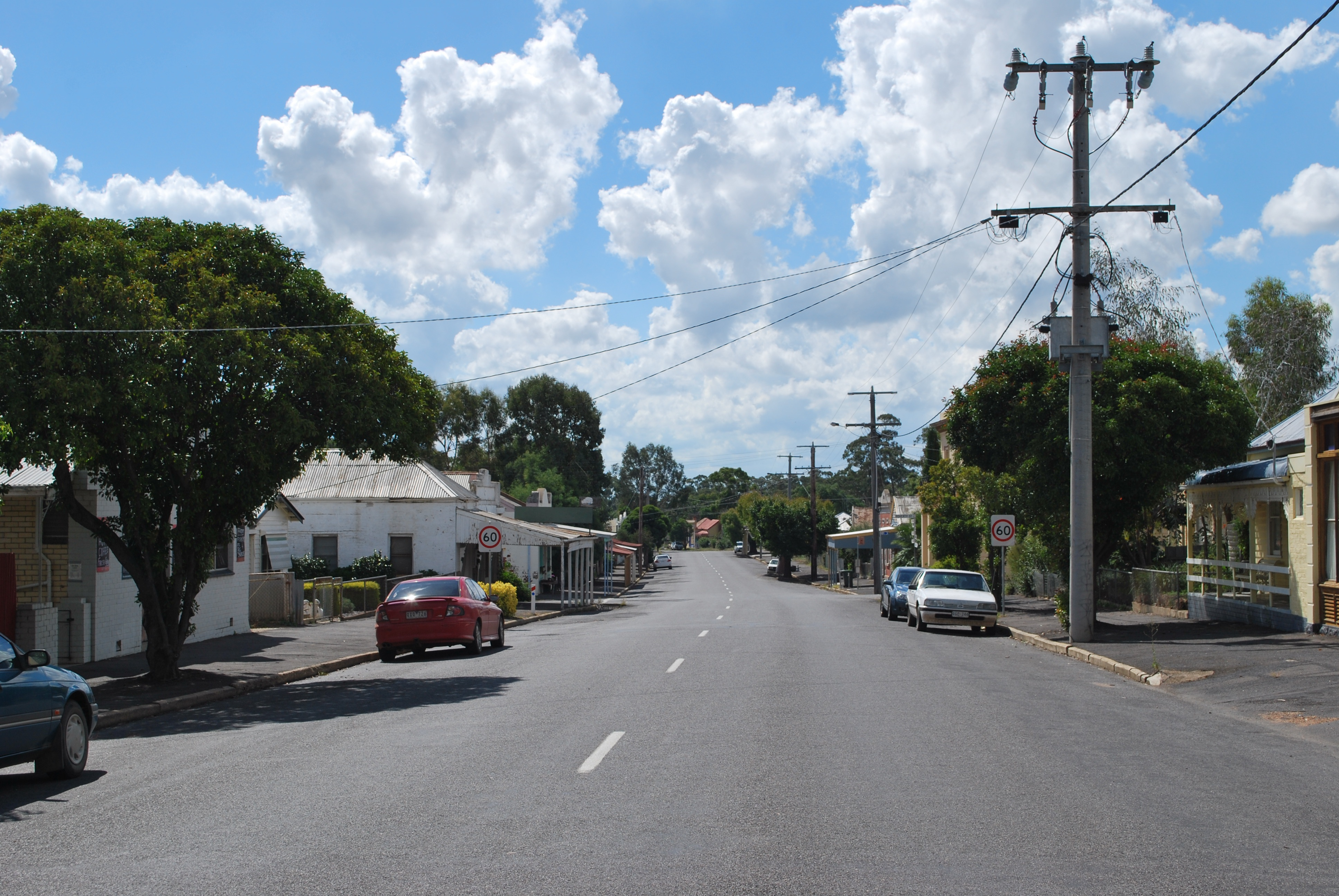 Commercial Road, the main street of Tarnagulla, Victoria